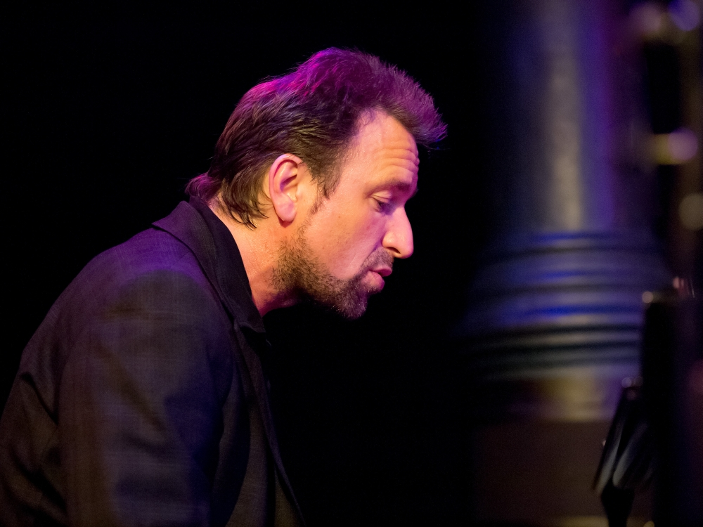 Cornelius Claudio Kreusch, Jazz pianist; Picture taken in Jazz Club Unterfahrt, Munich/Bavaria